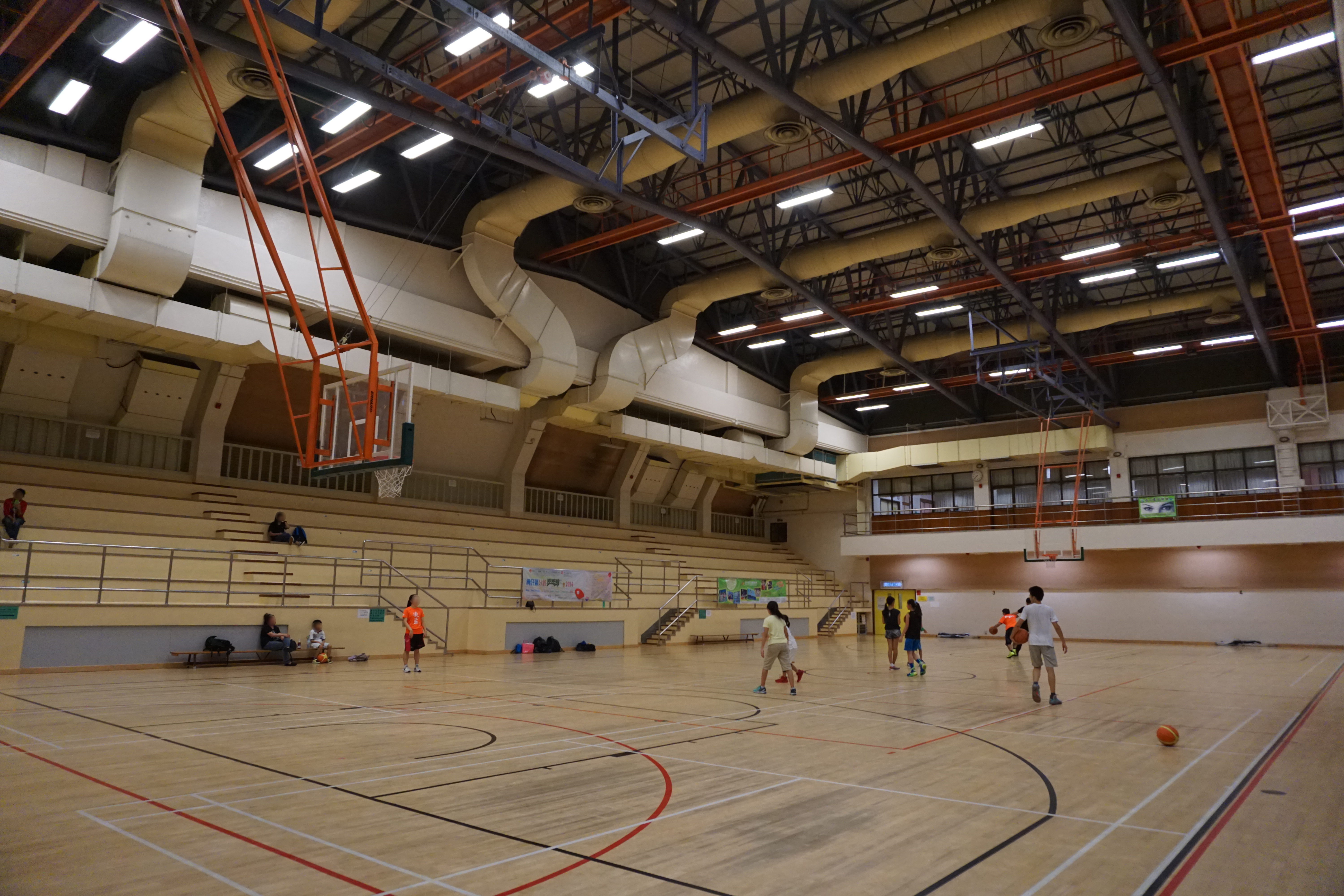 Harbour Road Sports Centre in Wan Chai, Hong Kong.